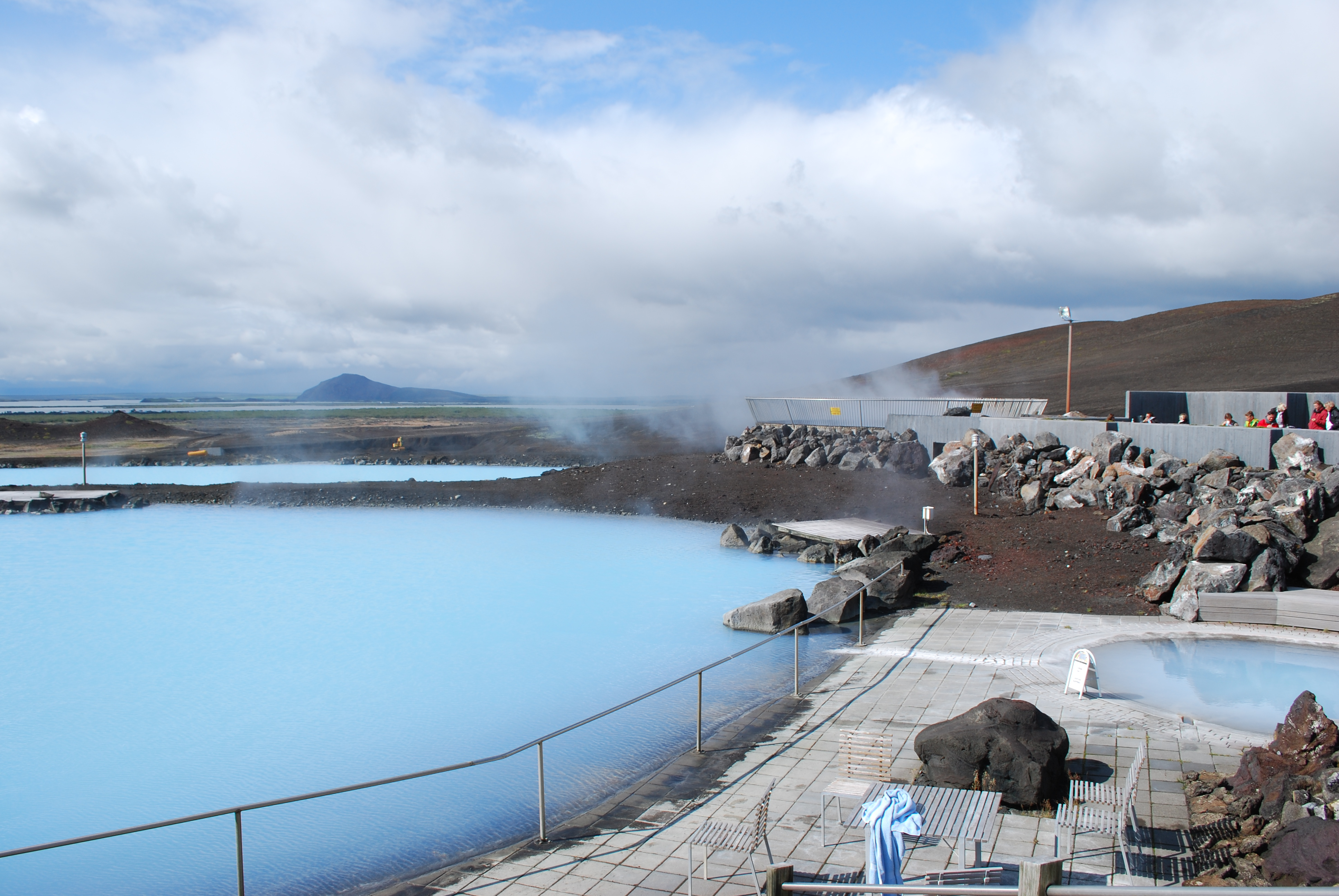 Blue Lagoon in Mývatn region called Jarðböðin við Mývatn, Iceland